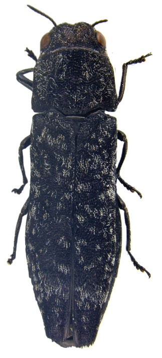 Agrilus tesselatus Jendek 2013, holotype.